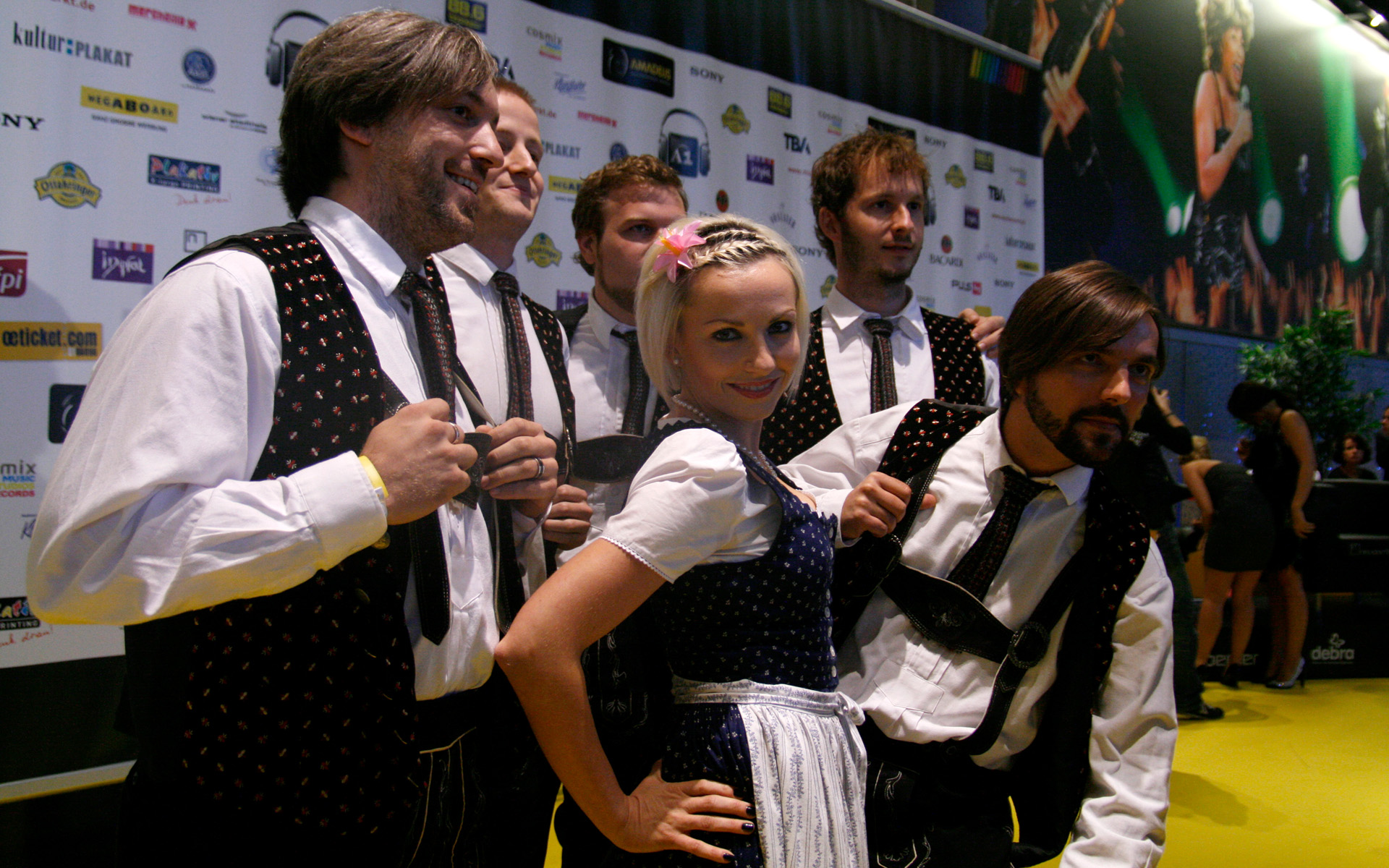 Kontrust at the Amadeus Austrian Music Award 2010 (Wiener Stadthalle, Vienna, Austria)